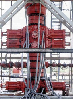 A blowout preventer.